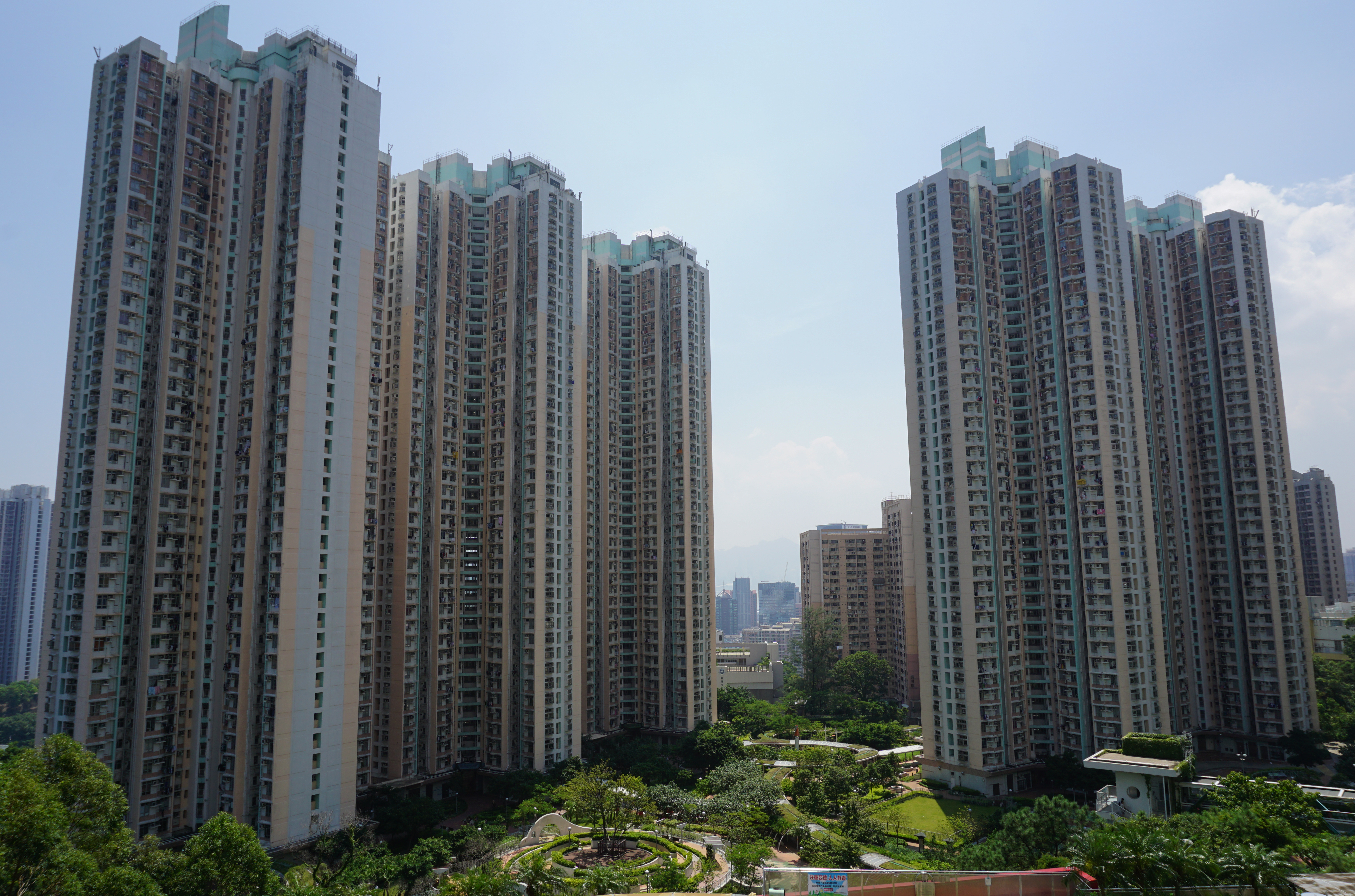 Sau Mau Ping South Estate in Sau Mau Ping, Hong Kong.